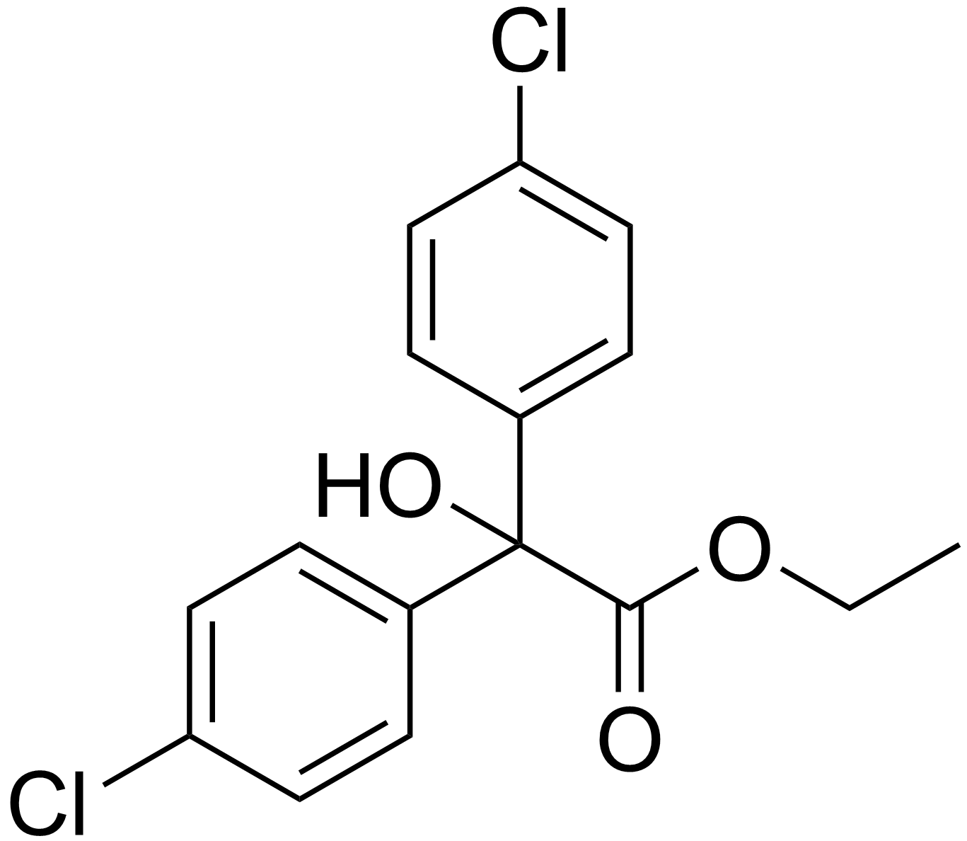 Chemical structure of chlorobenzilate